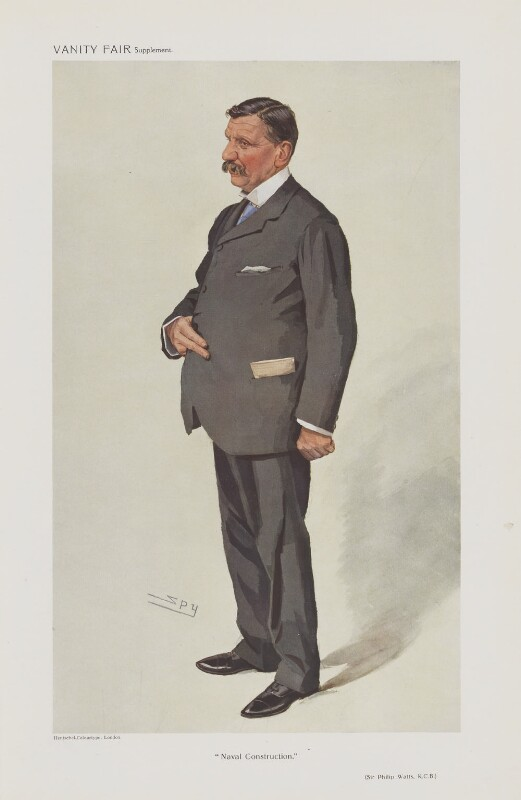 Men of the Day No.1224: Caricature of Sir P Watts KCB. Caption reads: "Naval Construction"